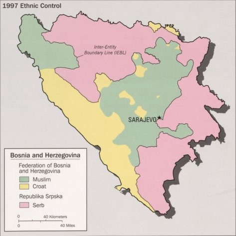 Ethnic control of the territory of Bosnia and Herzegovina in 1997, according to CIA.